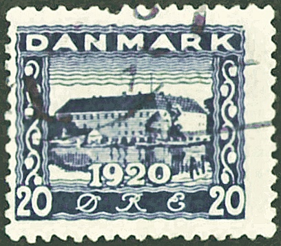 Stamp of Denmark; 1920; commemorative stamp of the issue to the "Incorporation of Northern Schleswig to the state area of Denmark"; drawing of the Castle of Sønderborg; postmarked Stamp: Michel: No. 111; Yvert & Tellier: No. 124; AFA: No. 113; Scott: No. 157 Color: blue to slate blue Watermark: Denmark No. 2 (crosses) Nominal value: 20 Øre Postage validity: from 5 October 1920 until 31 December 1926 date QS:P,+1920-00-00T00:00:00Z/8,P580,+1920-10-05T00:00:00Z/11,P582,+1926-12-31T00:00:00Z/11 Stamp picrture size (printed area): 20 x 17 mm